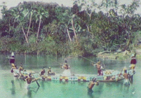 Warriors with Spears in Ornamented War Canoe. Canoe appears to be Solomon Islands type. Image cropped from the original to remove border.